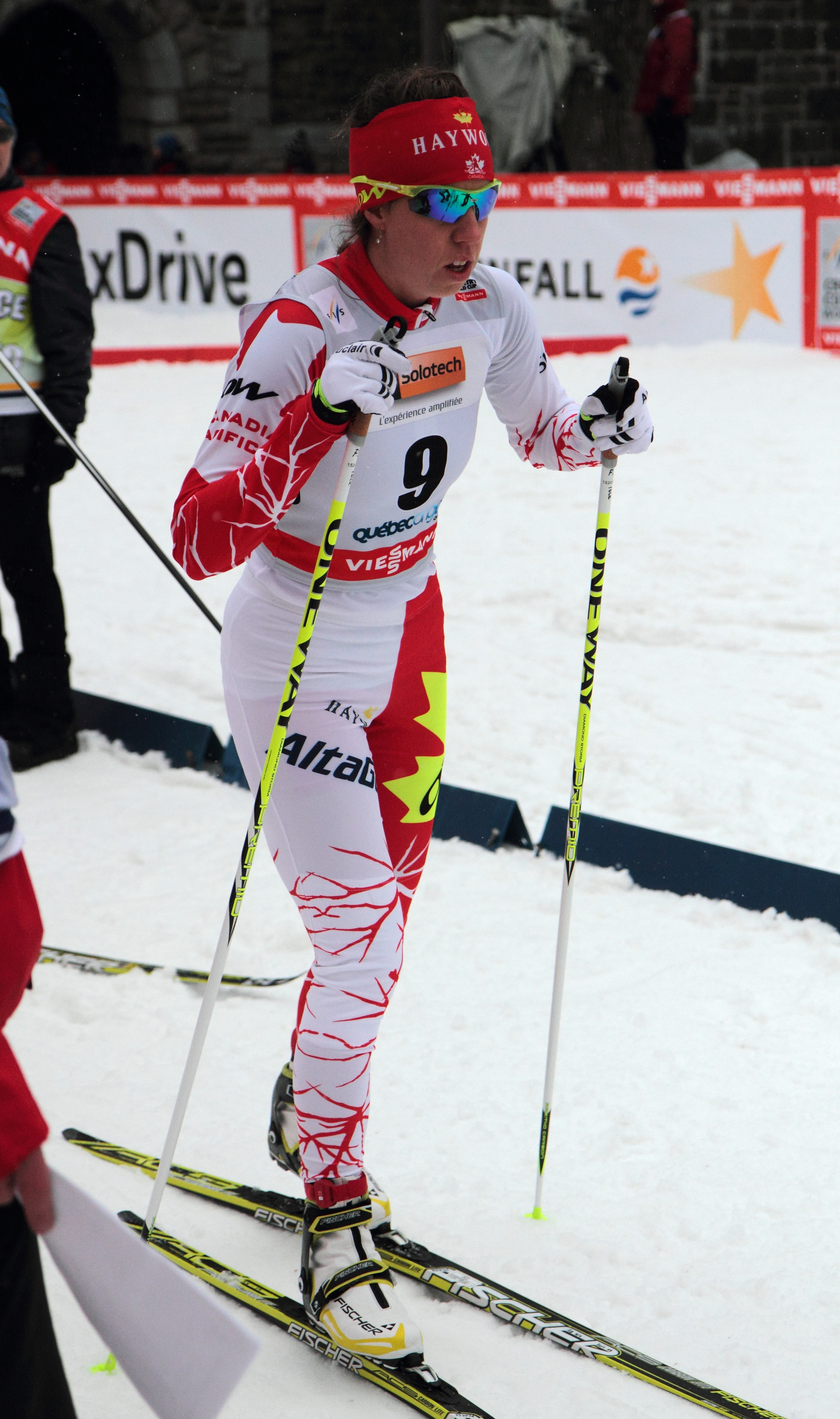 Perianne Jones, FIS Cross-Country World Cup, 2012, Quebec, Canada